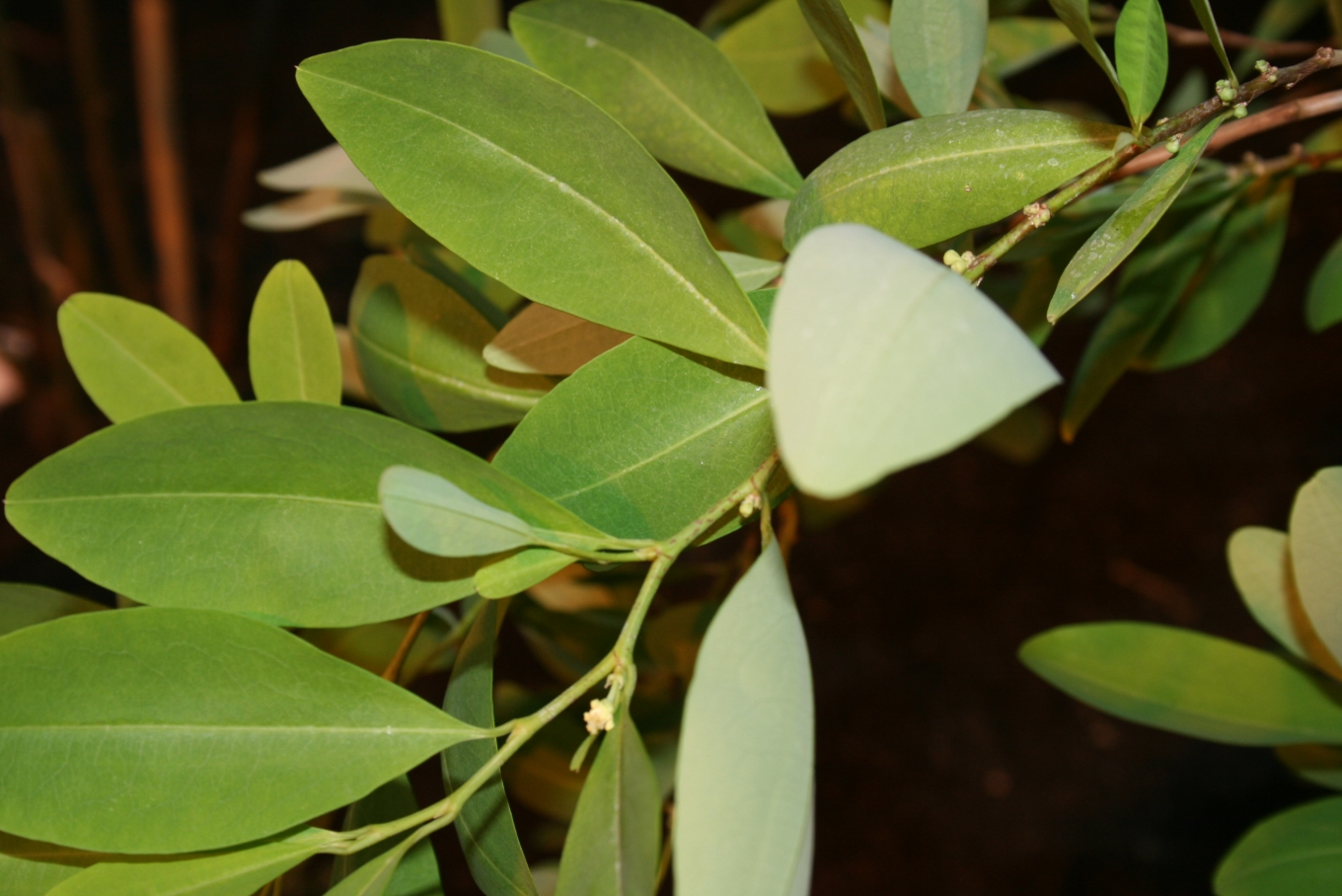 Erythroxylum coca: Foliage